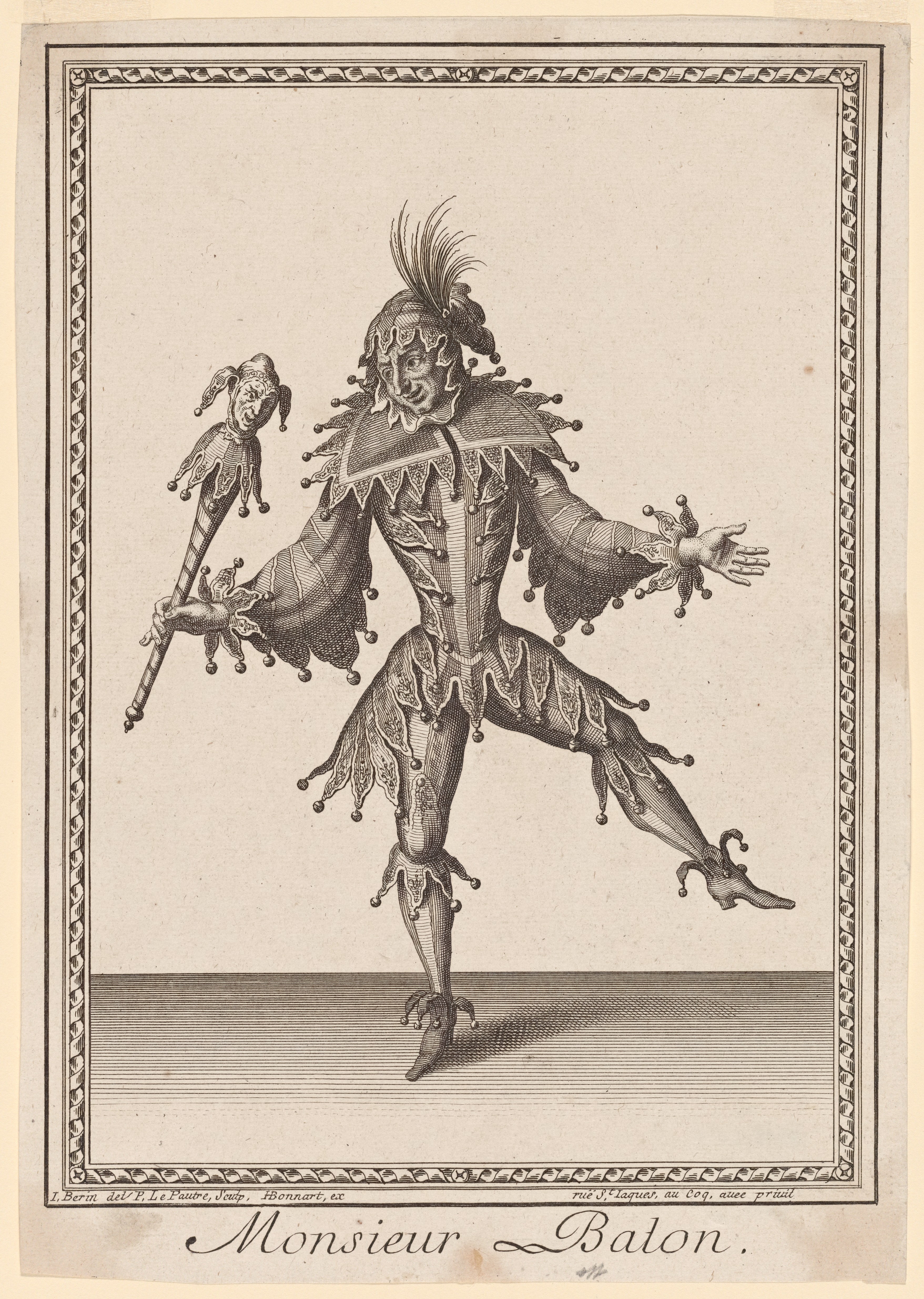 Claude Balon (also Ballon, often incorrectly named Jean) (1671 – 1744) was one of the leading French theatrical dancers of his day, and a choreographer. Here he is depicted as a harlequin or jester.